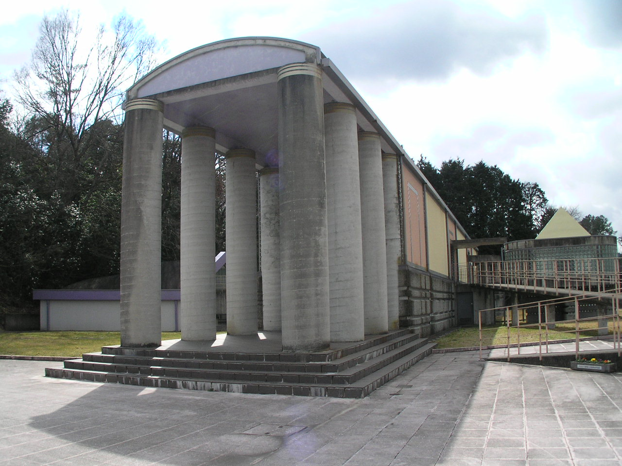 岡之山美術館 玄関 ～photo by Autumn Snake 【おぉたむ すねィく探検隊】